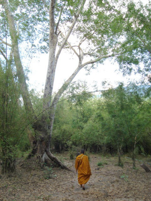 Thai monk the is pilgrimaging (ธุดงค์) follows ancient tradition for practices the dharma and help villagers Location: Wat Khung Taphao Ban Khung Taphao, Khung Taphao subdistrict, Mueang Uttaradit, Uttaradit Province, Thailand.